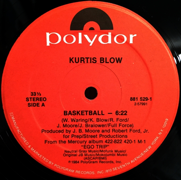 Side A of Kurtis Blow / Ralph MacDonald 12-inch single "Basketball" / "(It's) the Game". This is the 12-inch version of the record that was released in 1984 on Polydor Records.